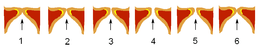 Glottal cycle of the falsett voice